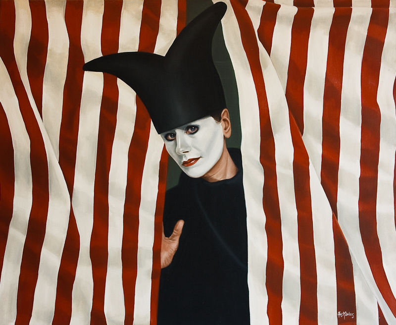 Ans Markus Pierrot undated oil on canvas selfportrait with harlequin cap in front of striped tent